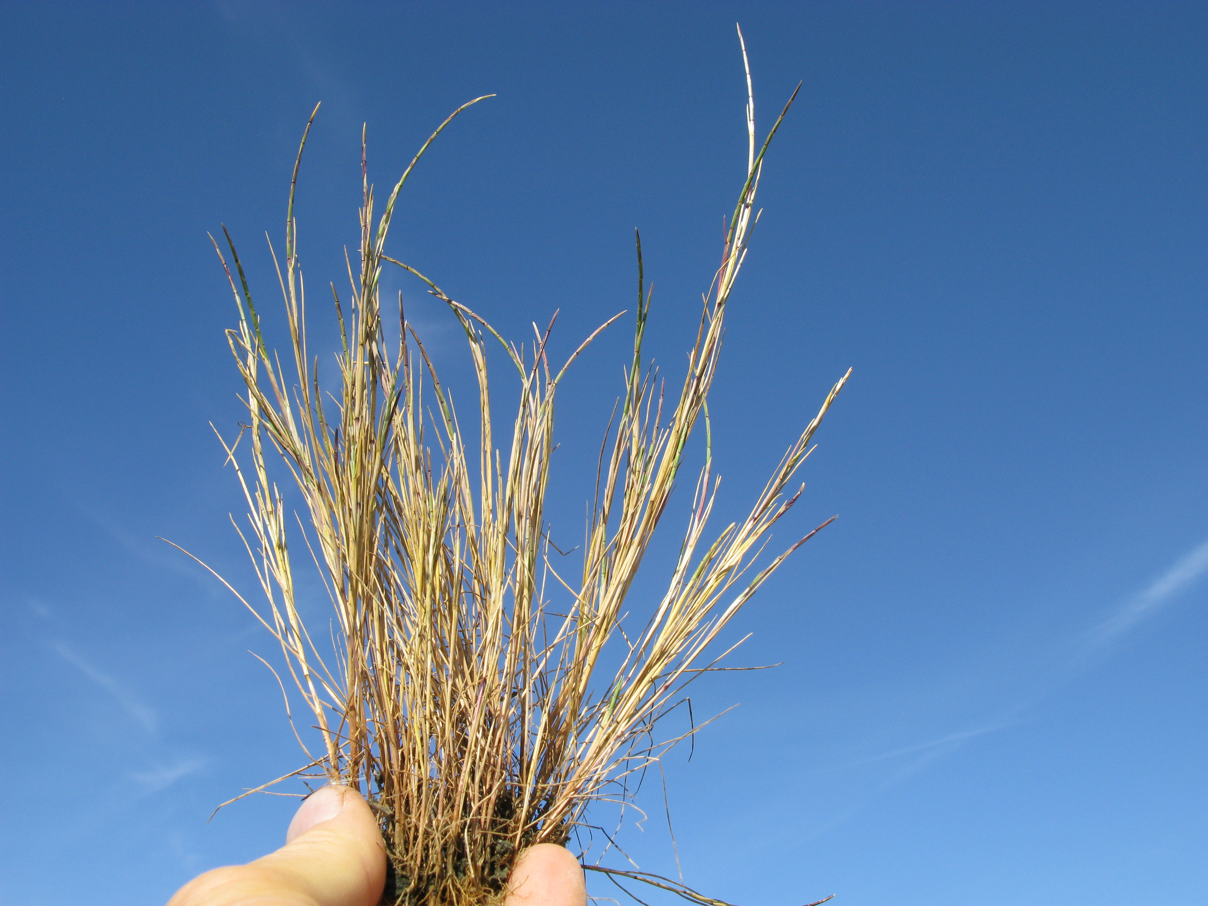 Introduced, cool-season , annual, tufted grass to 10 cm tall. Leaf sheaths are hairless and blades are flat or rolled, to 2 mm wide and hairless; margins and upper surface are rough to touch. Ligules are membranous and 0.3–1 mm long. Flowerheads are cylindrical, often curved, slender spikes that are partially enclosed in the upper sheaths. Spikelets are 1-flowered, unstalked, alternately arranged on the stem and embedded in the stem. Glumes are 4–7 mm long, longer than internode and lemma, arranged side by side (except the terminal spikelet), slightly overlapping, and covering the hollow in stem. Lemma is 3–5 mm long and has its back against the stem. Grows in saline areas, often far inland, so Coast Barb Grass is a misleading name. This specimen was photographed in Ballimore.